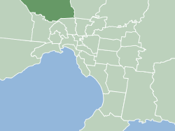 Map of Melbourne's Local Government Areas, highlighting City of Hume